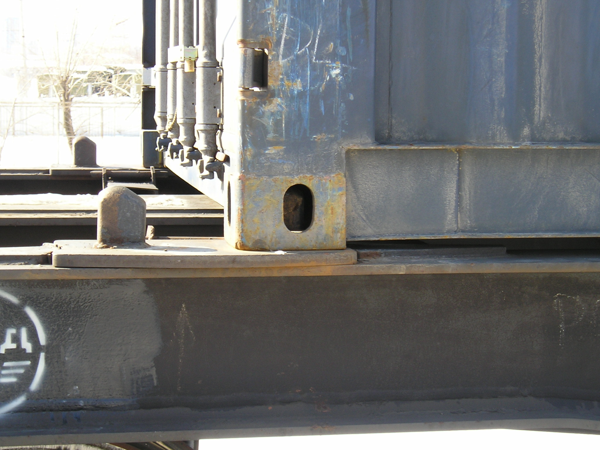 Fiting on well car